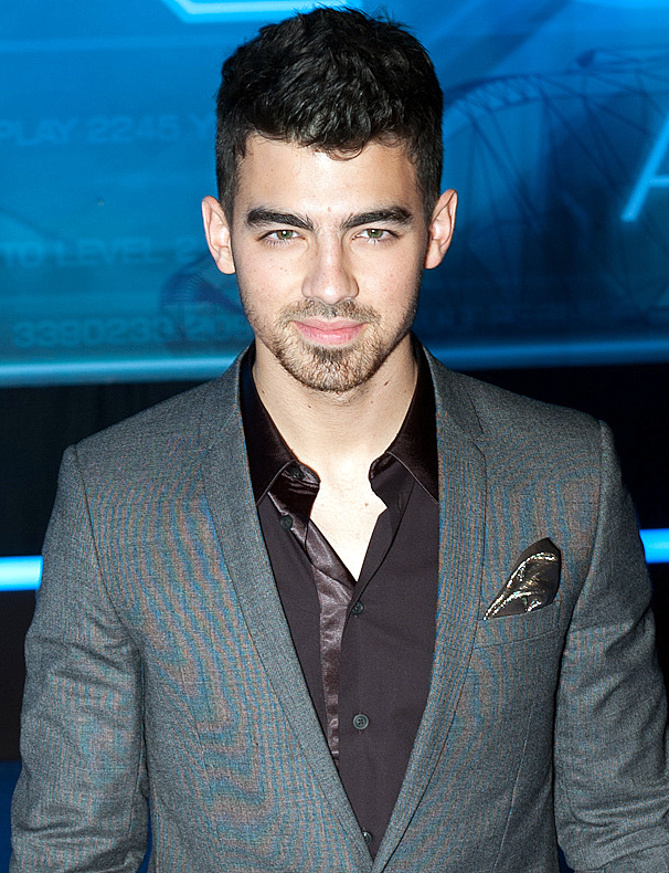 Joe Jonas at the Tron: Legacy Premiere 2010.